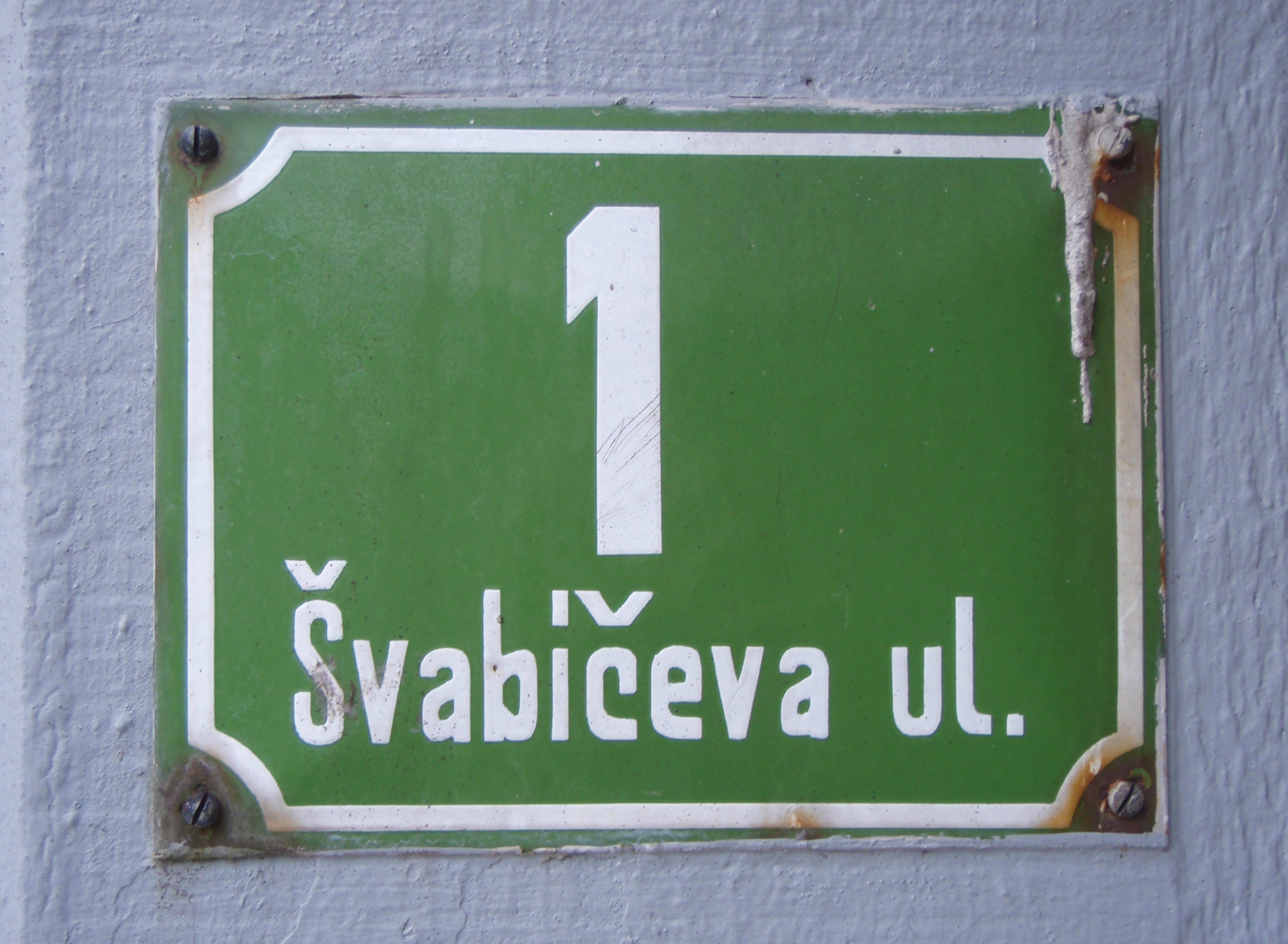 Švabičeva ulica (Ljubljana), Slovenia